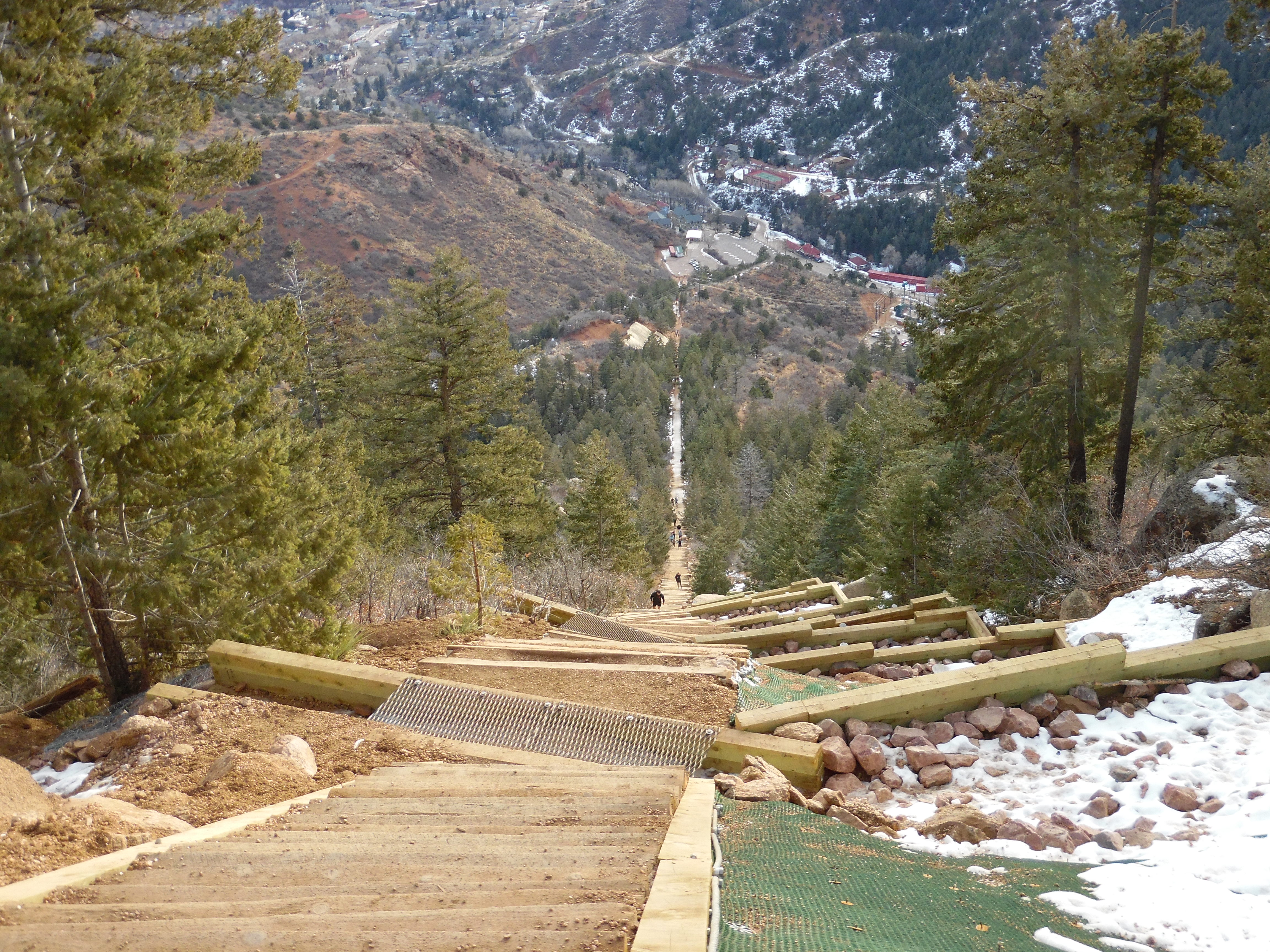 Looking down the Manitou Springs Incline from Barr Trail Bailout approximately two-thirds of the way up the incline.